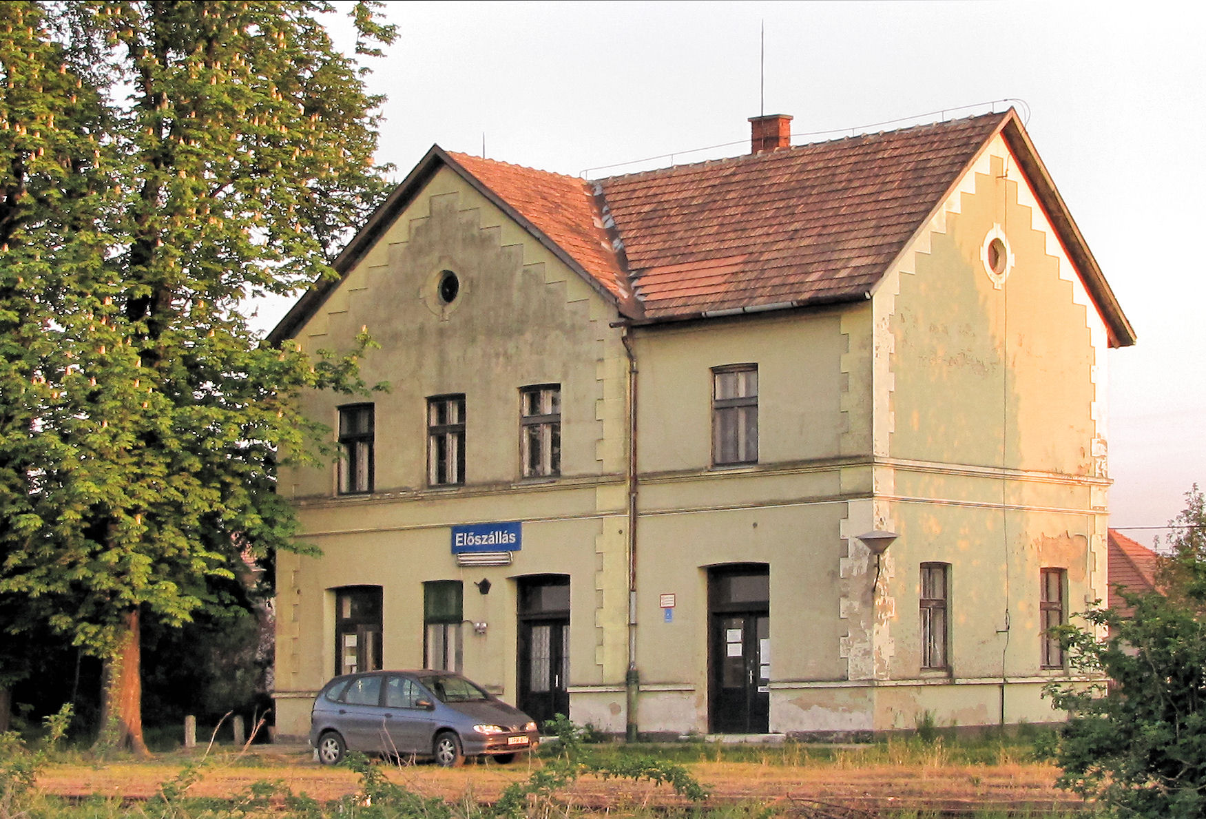 Train station, Előszállás, Hungary. Built in 1896.